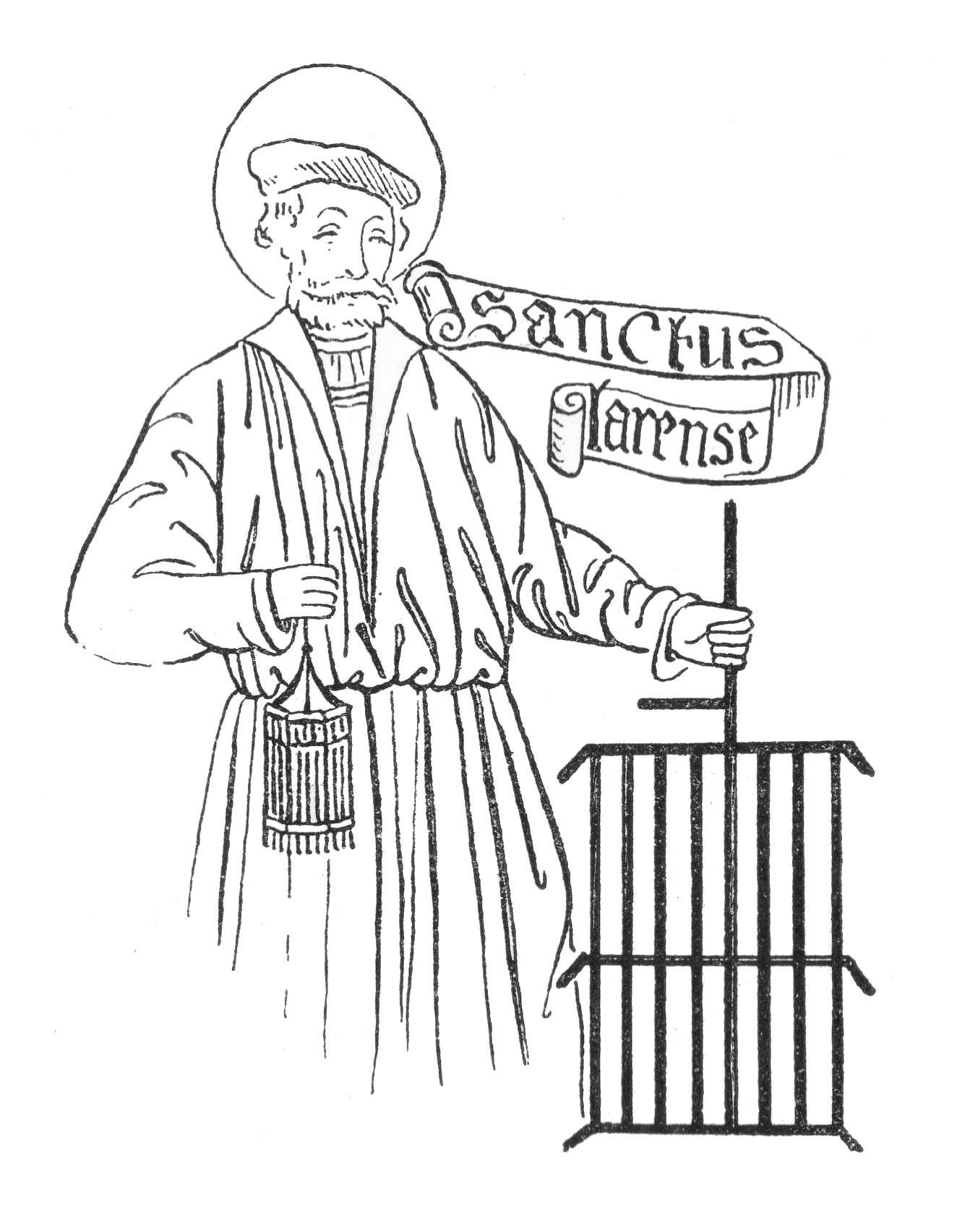 "De gamle Kalkmalerier i vore Kirker" (The old paintings in our churches) 1900 by Julius Magnus Petersen (1827–1917), Ill. 21. The book is digitized at De gamle Kalkmalerier i vore Kirker